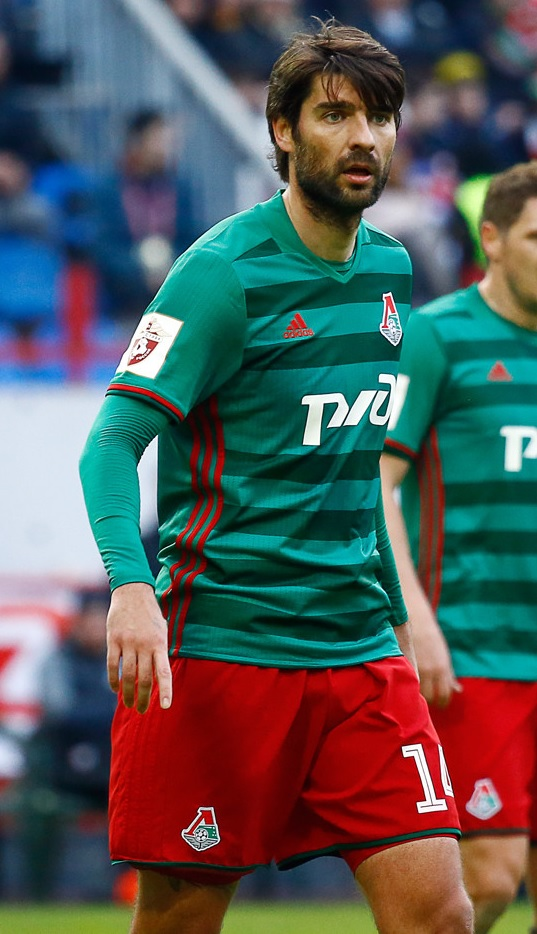 Vedran Ćorluka with FC Lokomotiv Moscow in a game against FC Spartak Moscow.